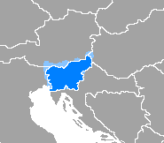 Slovenian language